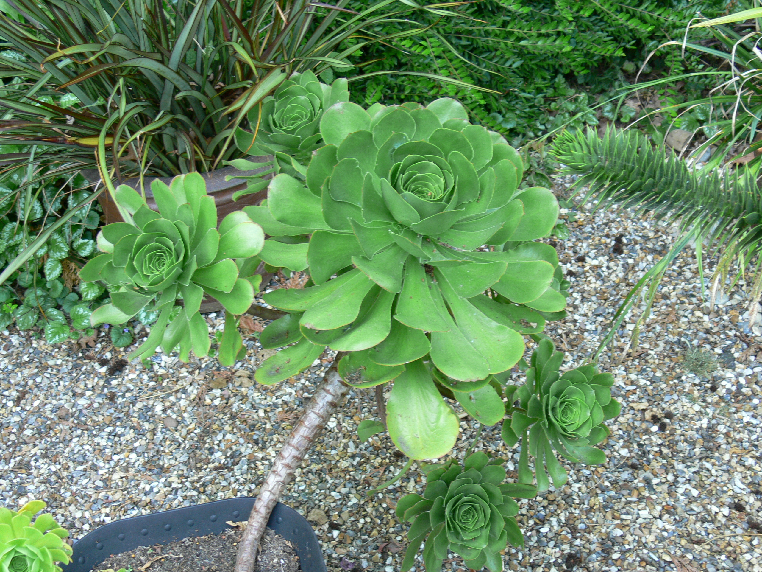 Aeonium Ciliatum showing larger central floret with surrounding florets